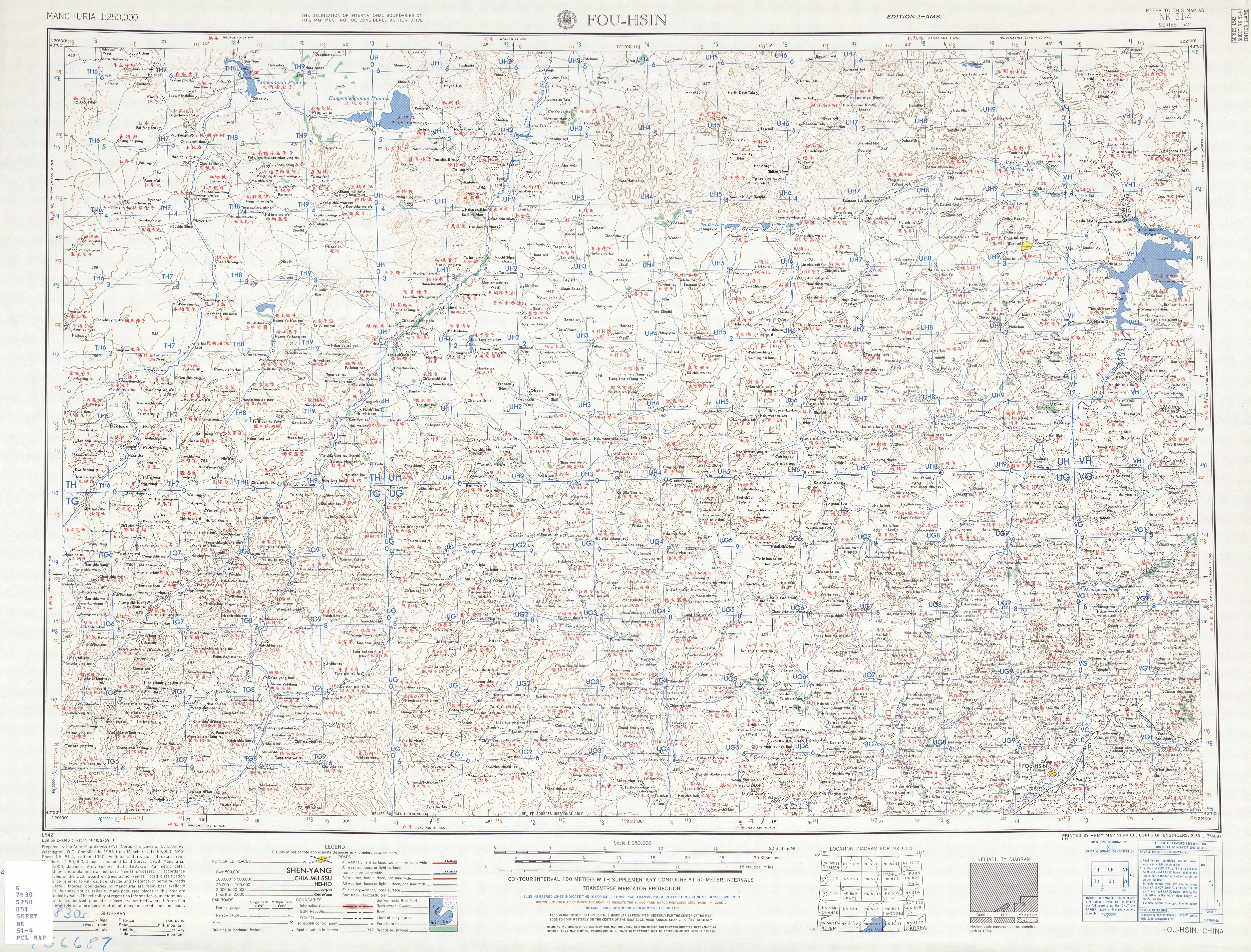 Manchuria AMS Topographic Maps